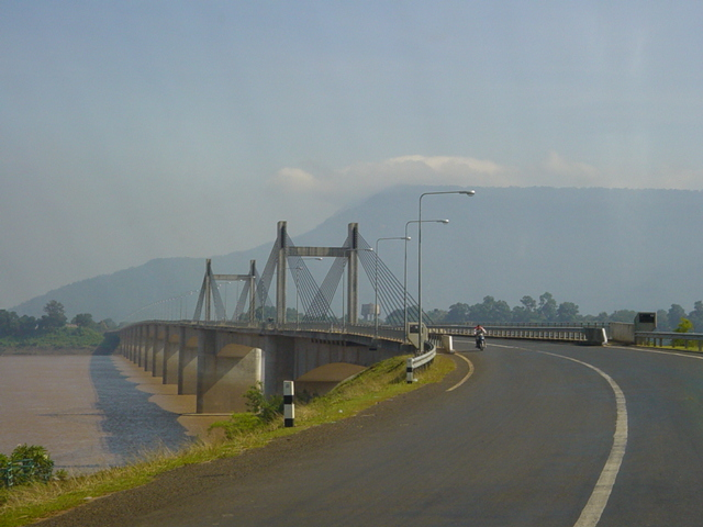 Bridge over the Mekong, Pakse, Laos, 10/2003.